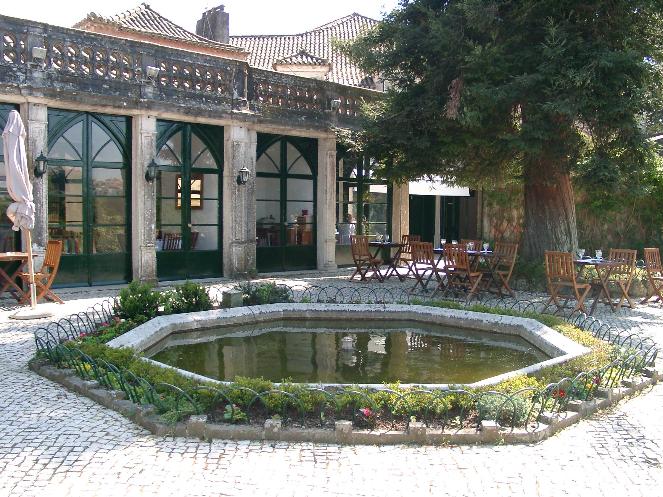 Lake, Monteiro-Mor Parque, National Museum of Costume and Fashion